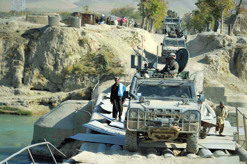 Alpini from the 8th Alpini Regiment of the Italian Army on patrol in Afghanistan with VTLM Lince.